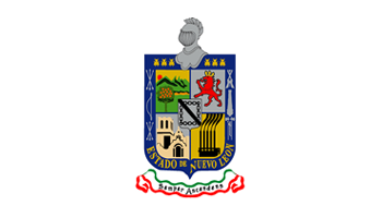 Flag of the State of Nuevo León, Mexico.